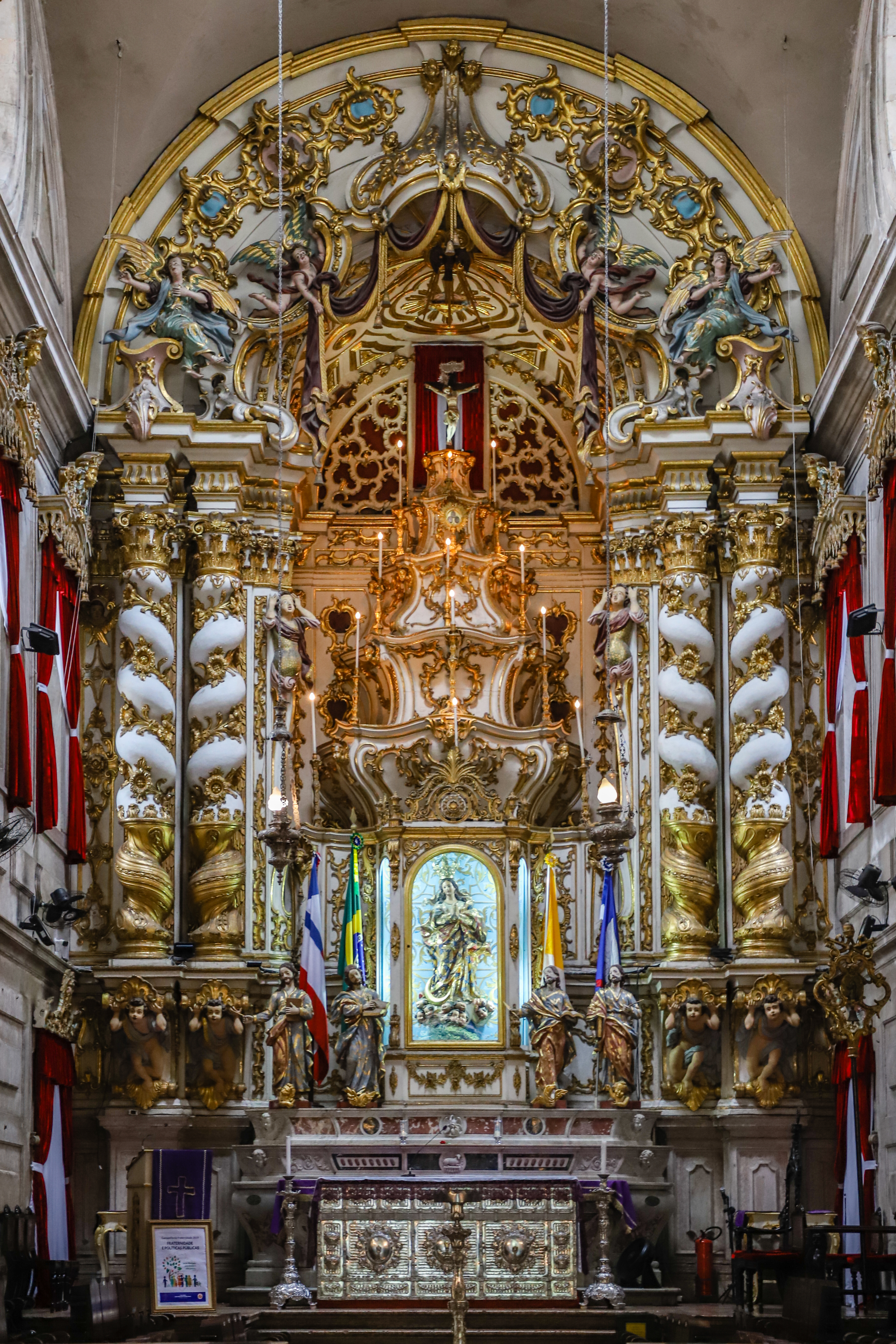 High altar, Nossa Senhora da Conceição da Praia Church (Church of Our Lady of the Conception of Praia), Salvador, Bahia, Brazil.